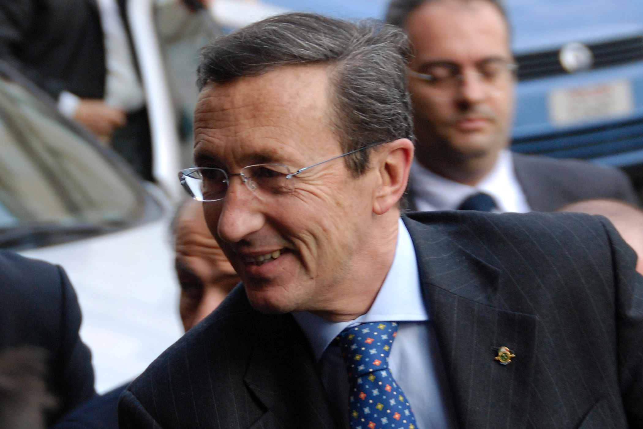 Gianfranco Fini, former Italian foreign minister and president of the national-conservative party Alleanza Nazionale. Picture taken at a conference at Golden Palace Hotel, Turin.